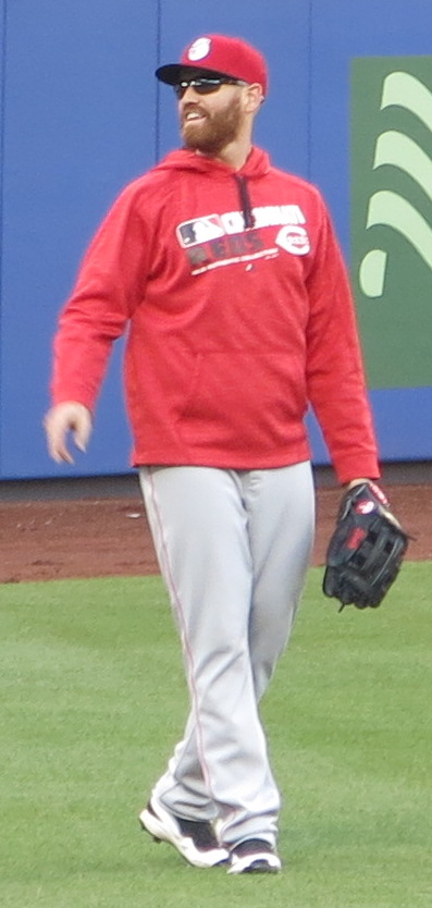 Dan Straily with the Cincinnati Reds, April 27, 2016.